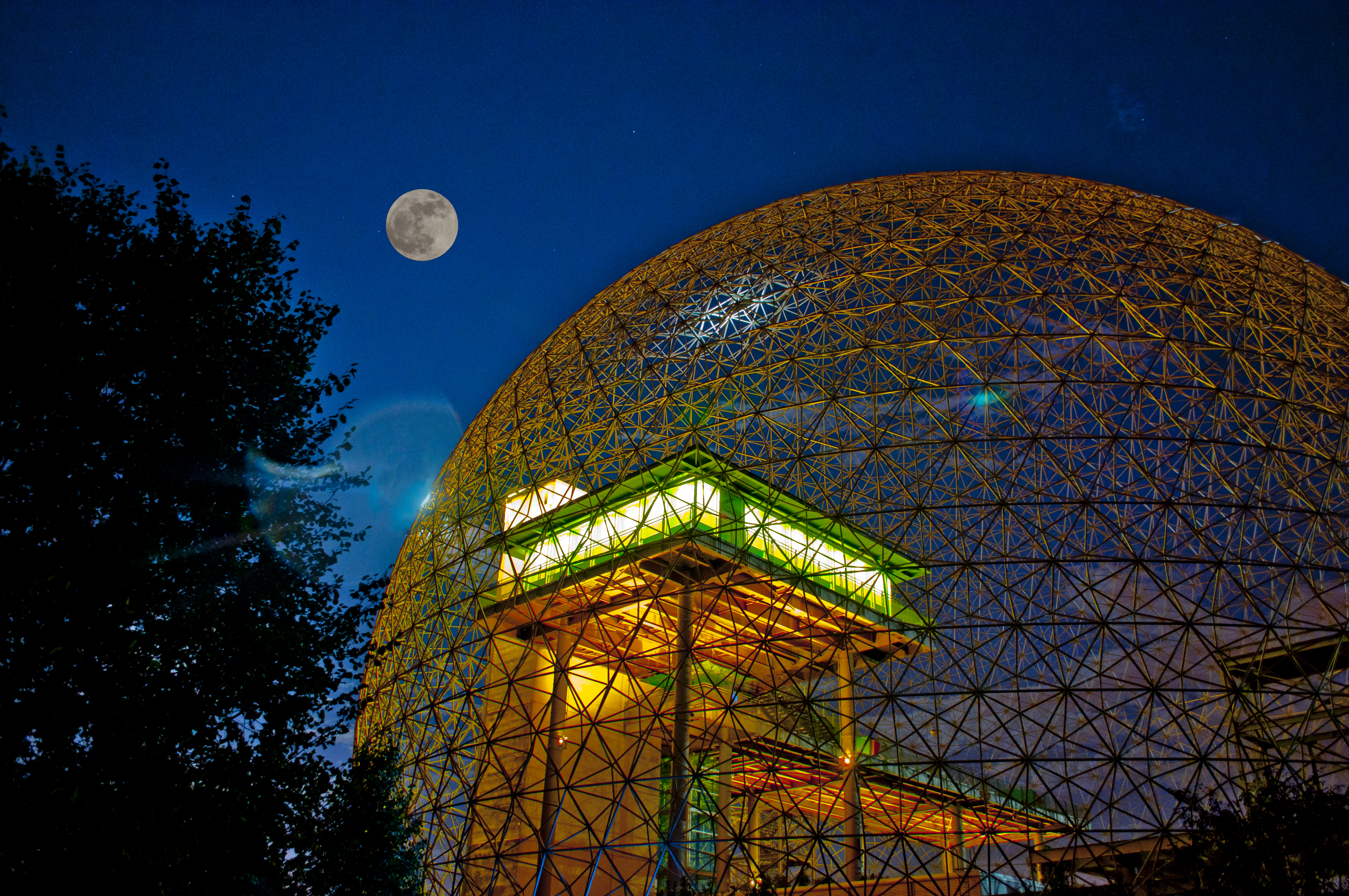 This place is located in parc jean drapeau in Montreal.